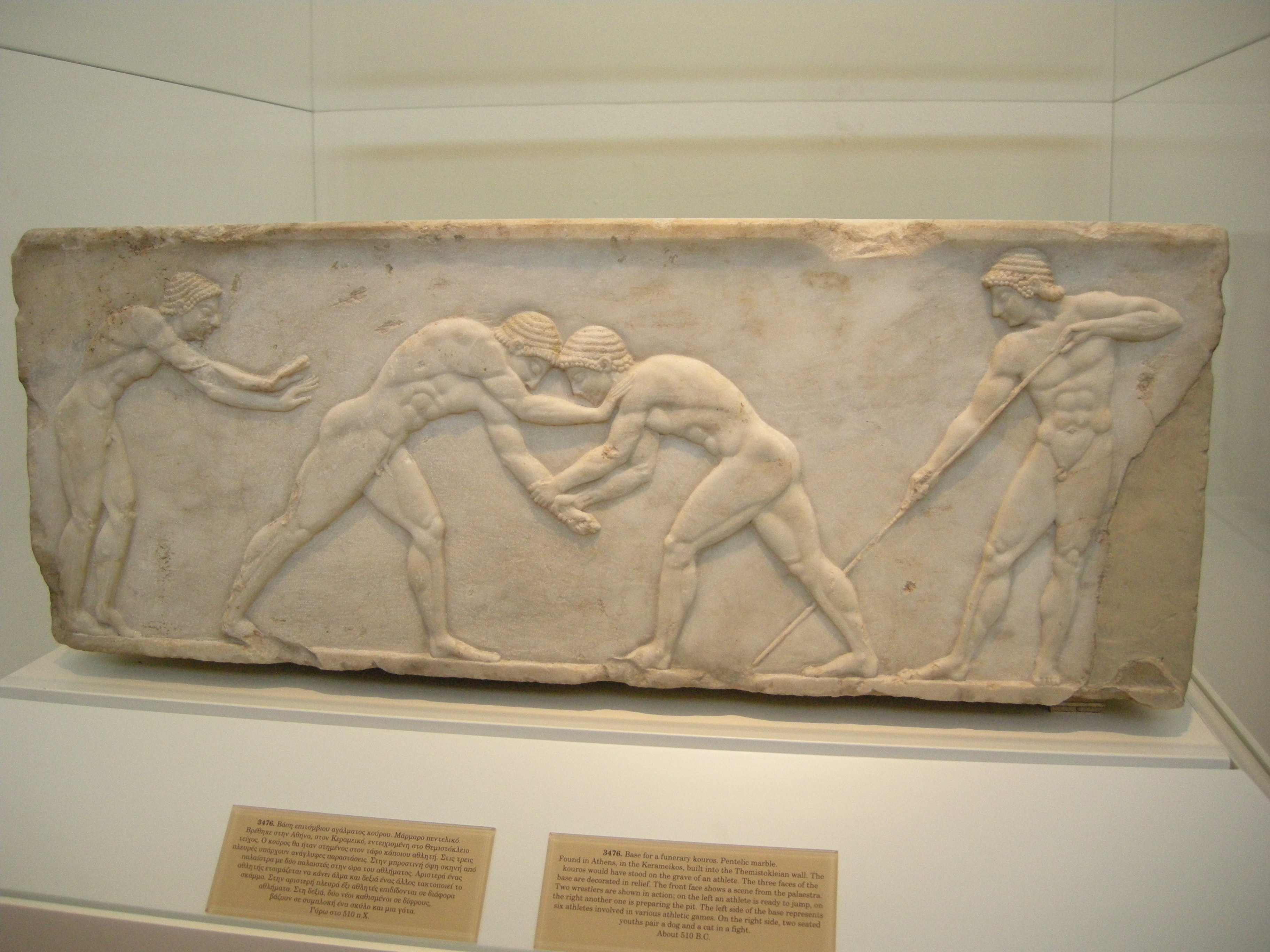 Base of a funerary kouros found in Athens, built into the Themistokleian wall. Three sides are decorated in relief: wrestlers are on the front side, an unspecified athletic game (known as "Ball Players") on the left side, a cat and dog fight scene on the right side.front view